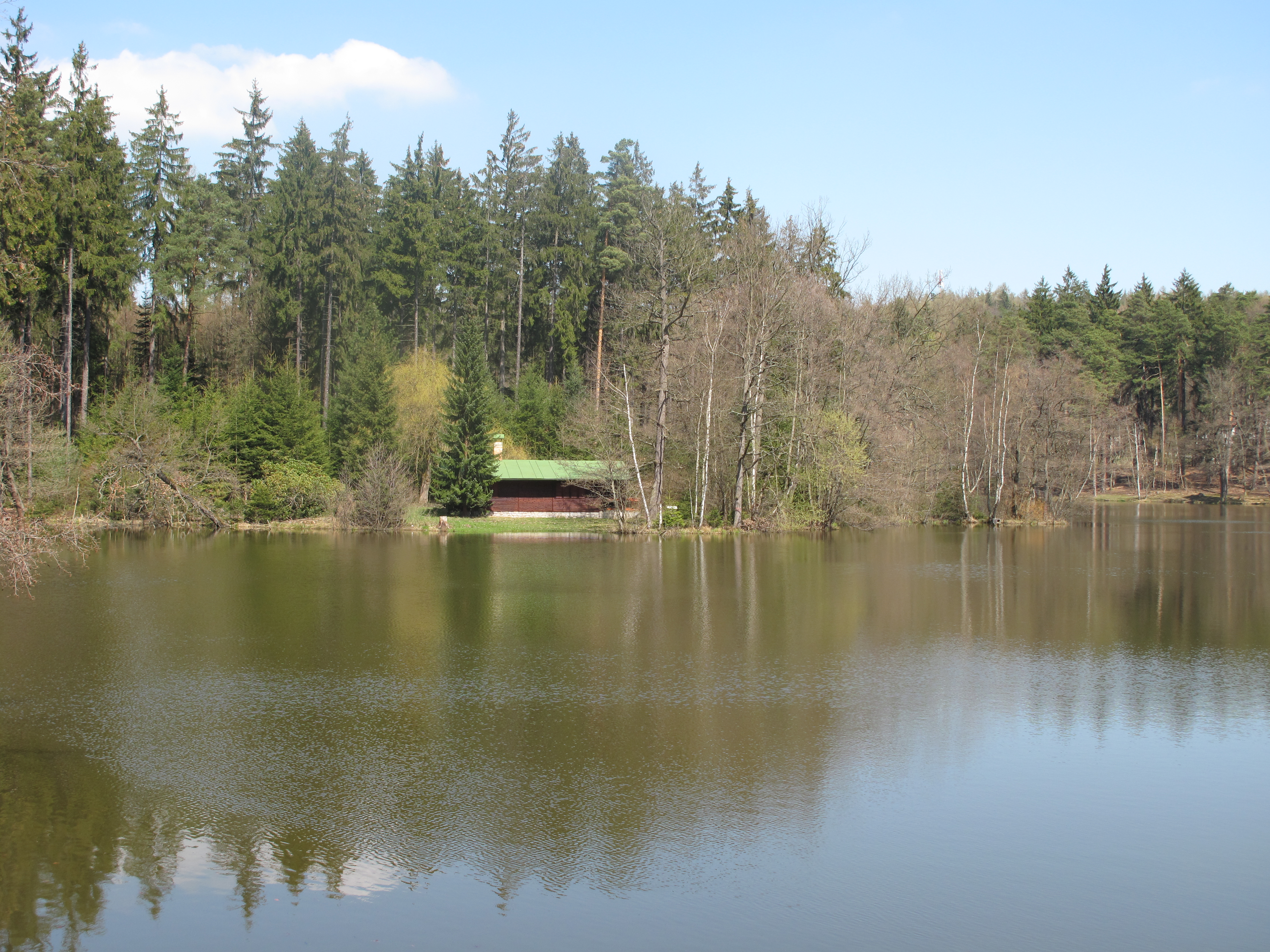 Chancellor's cottage (Forest Establishment at Kostelec nad Černými Lesy of the University of Life Sciences Prague) on the bank of Švýcar Pond. Prague-East District, Czech Republic. This photograph was taken within the scope of the 'Czech Municipalities Photographs' grant.